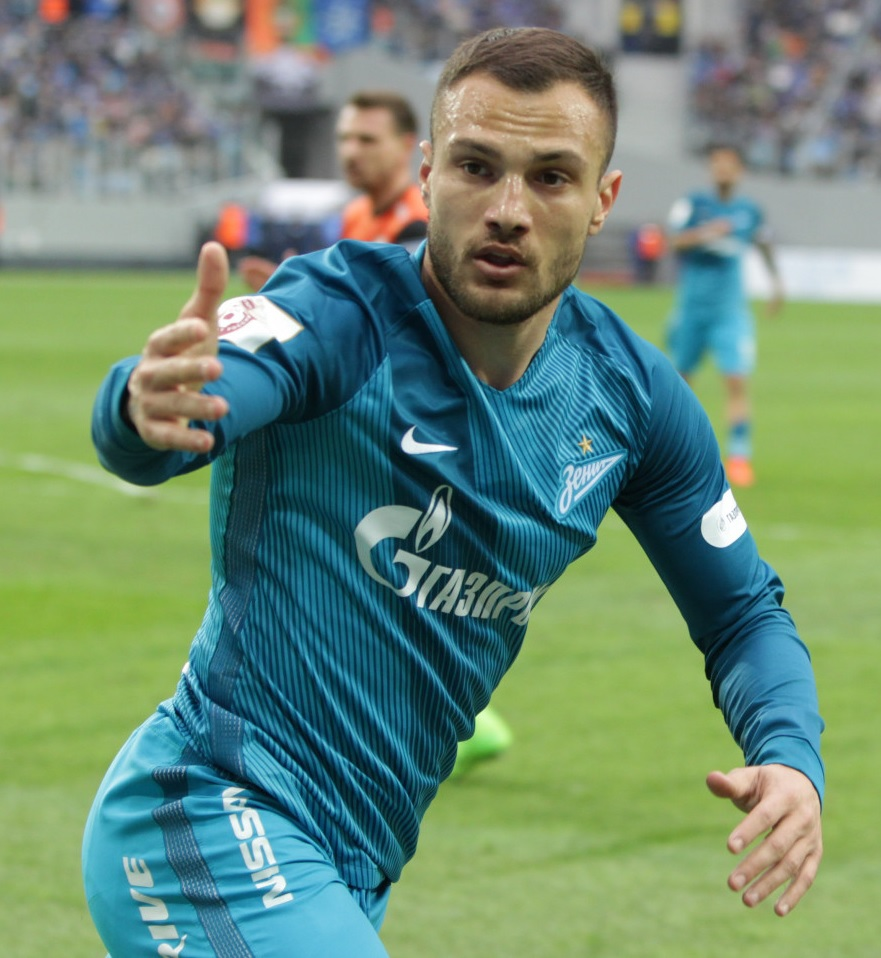 Yohan Mollo celebrates scoring for FC Zenit St. Petersburg in a game against FC Ural Yekaterinburg.